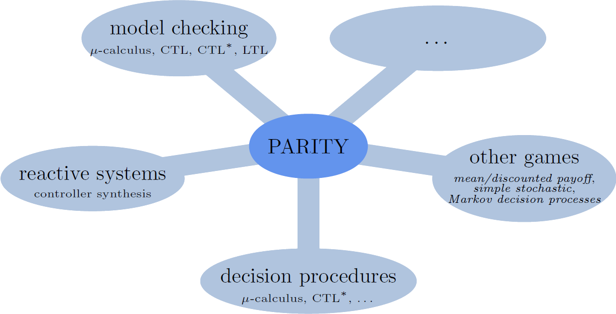 The image contains an overview over the most common use cases for parity game solving.